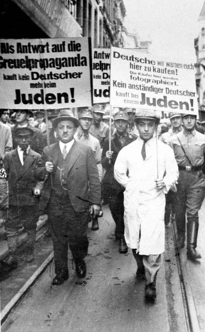 During the boycot of Jews on April 1, 1933 in Nazi-Germany jews are forced to march with anti-semitic signs. The men in uniform are SA-members. The signs say things like: "Don't buy from Jews" and "A good German doesn't buy from Jews".